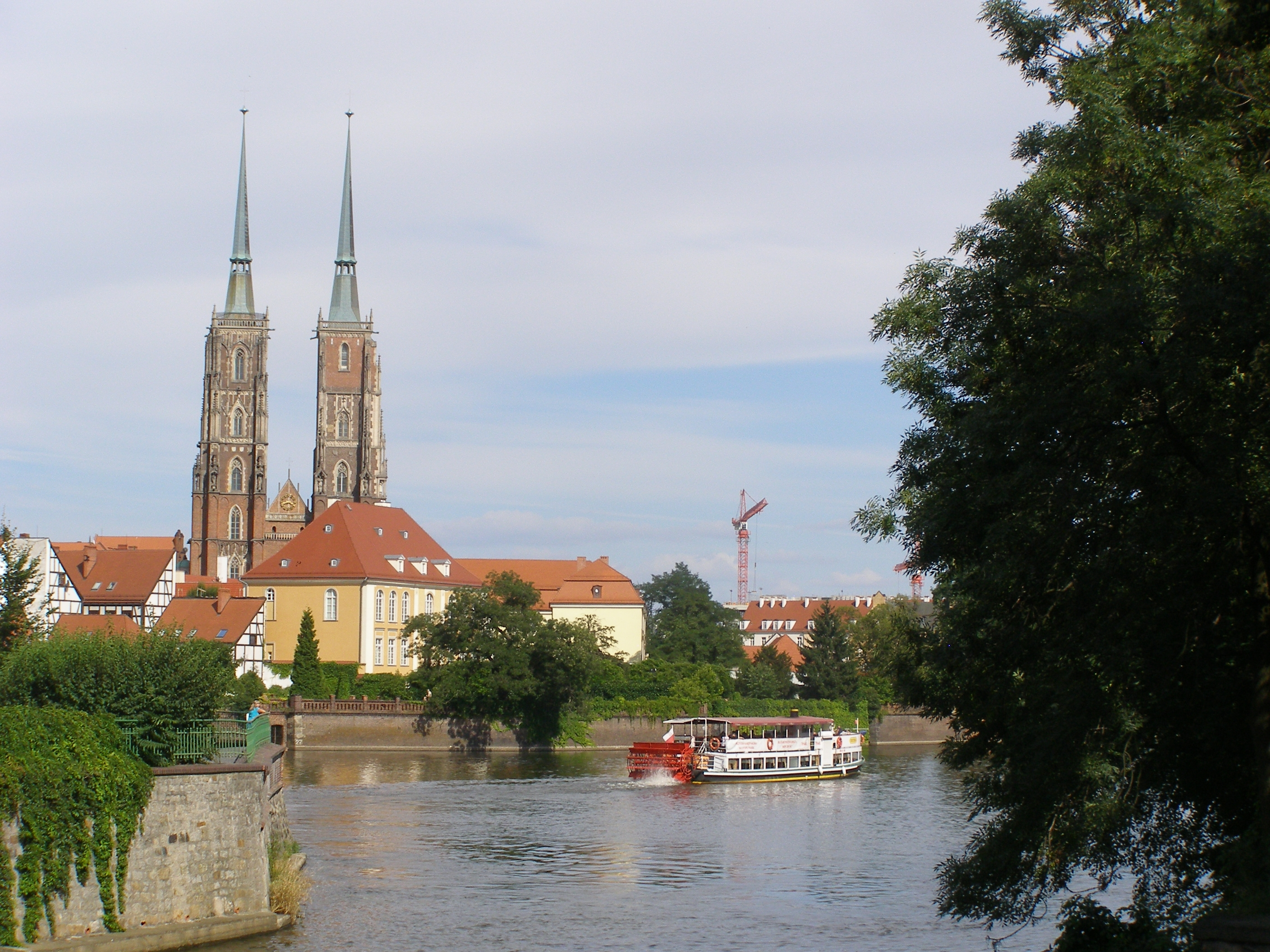 Wrocław - St. John the Baptist cathedral